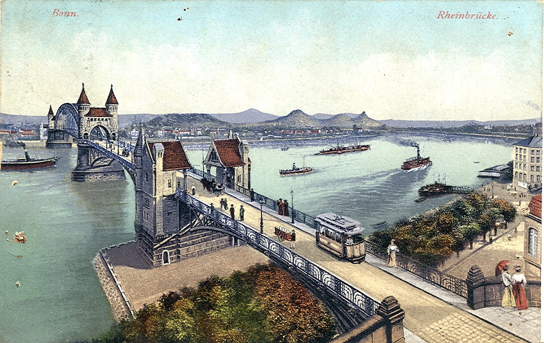 Postcard, dated 22.3.1915. Title: "Bonn - Rhine bridge".